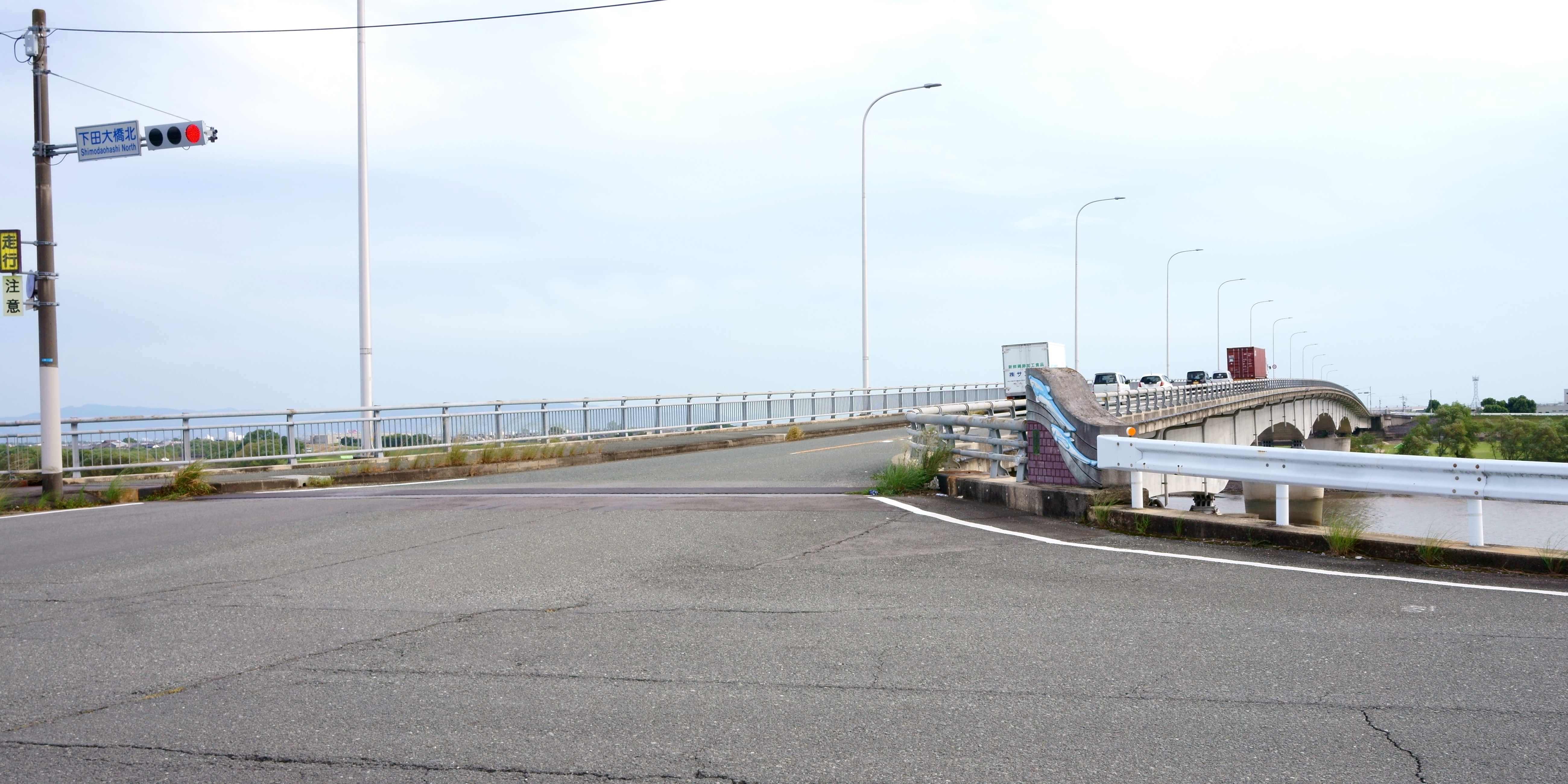 Shimoda-ōhashi Bridge at its north side in Jōjima-machi Shimoda, Kurume city, Fukuoka prefecture.